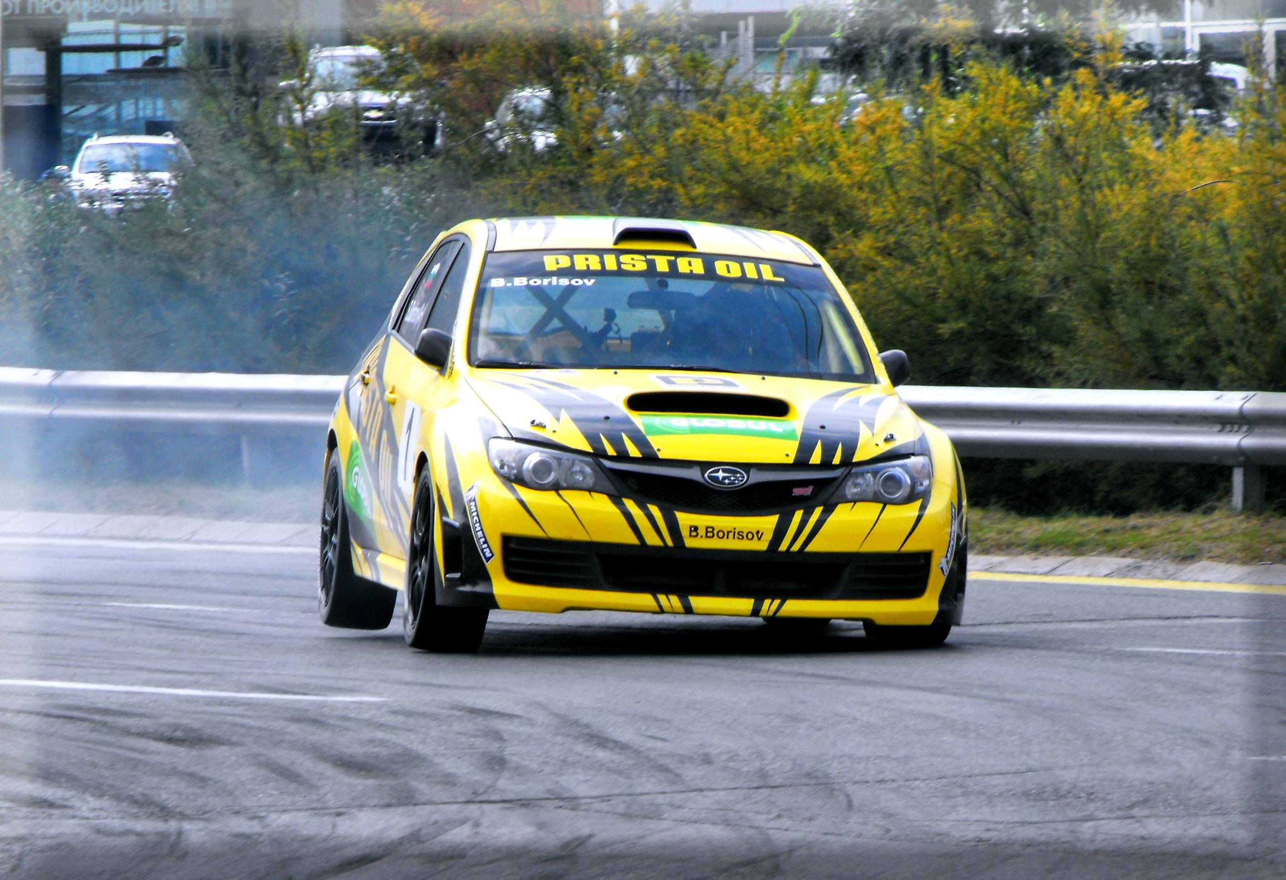 Boris Borisov - bulgarian racecar driver